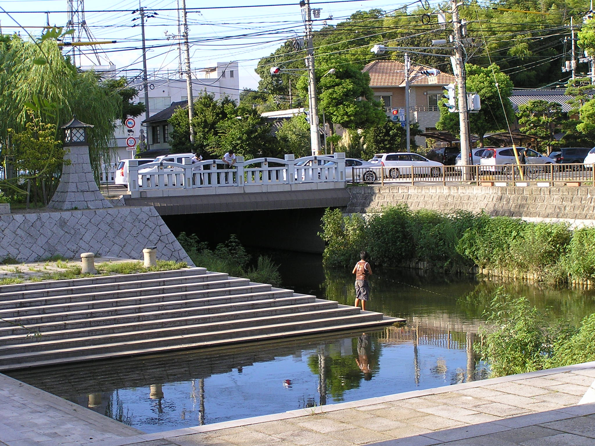 The vicinity of Irifune bridge of Kurashiki river